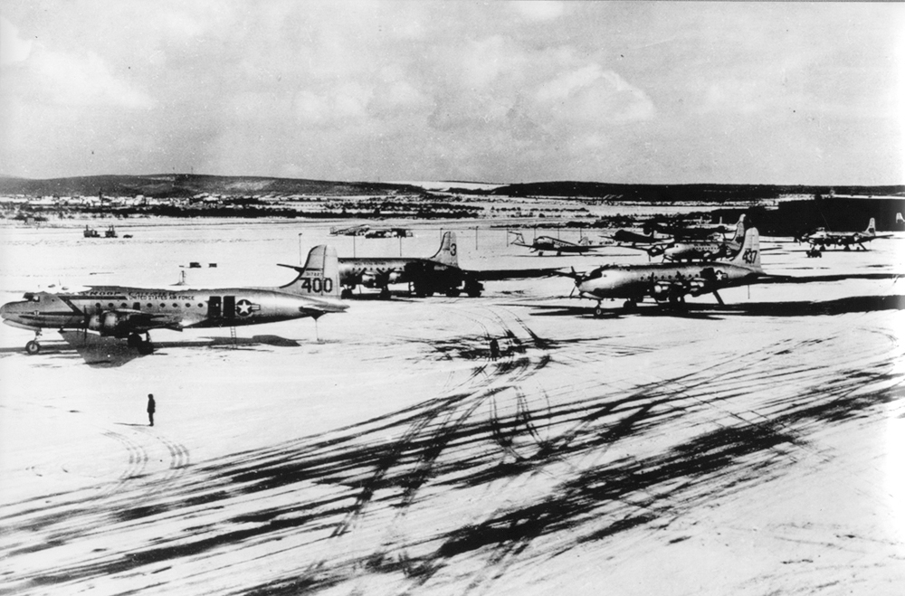 C-54s stand out against the snow at Wiesbaden Air Base during the Berlin Airlift in March 1949. U.S. Army photo